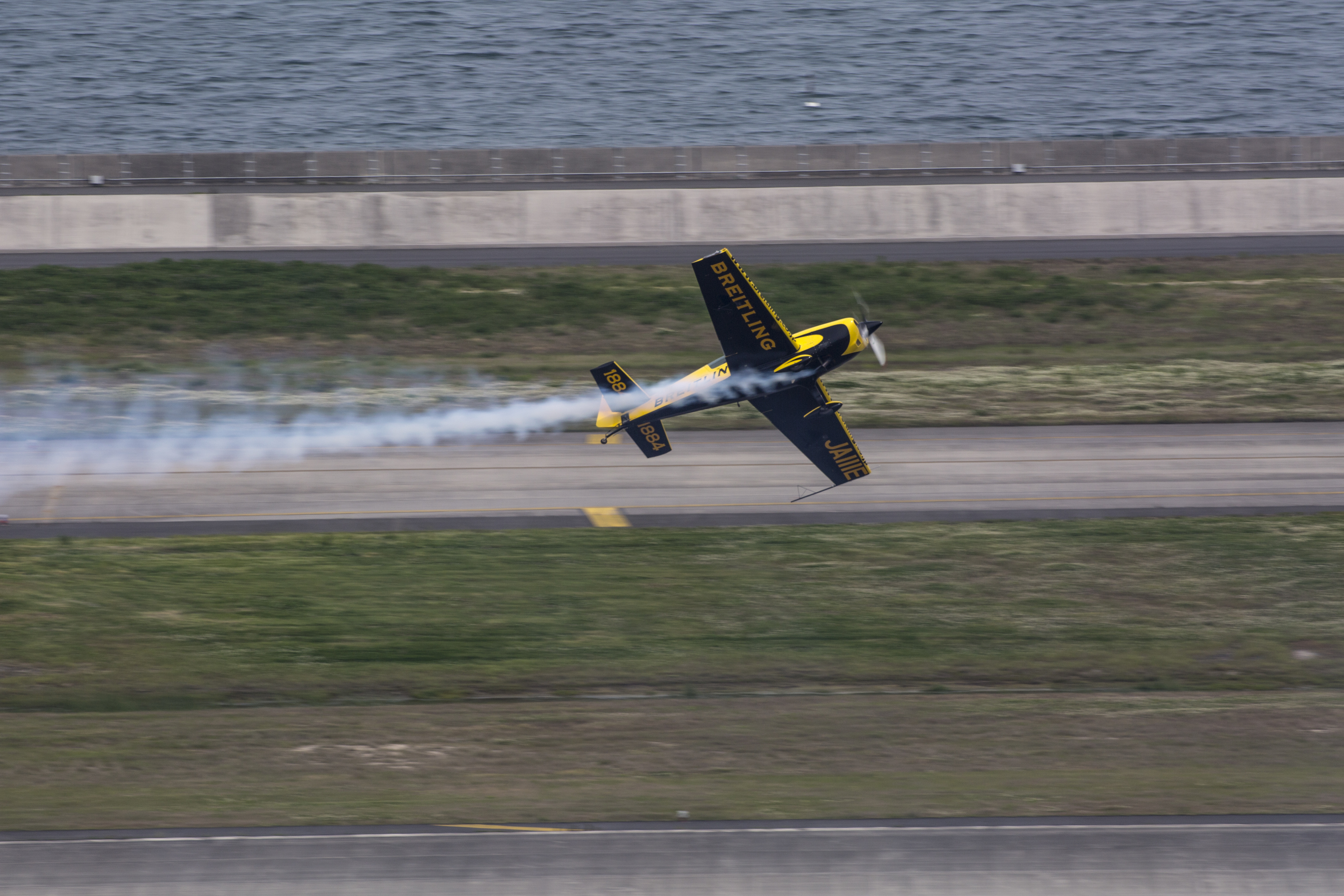 Yoshihide Muroya takes off as he races a Ferrari down the taxi way during the Marine Corps Air Station Iwakuni Friendship Day 2016 Air Show, May 5, 2016. As the first Asian pilot in the Red Bull Air Race World Championship in 2009, Yoshi has helped raise the popularity of the sport in East Asia, particularly in his home country of Japan. Since 1973, MCAS Iwakuni has conducted a single-day air show and open house specifically designed to foster positive relationships between the air station and our Japanese hosts, and the event traditionally draws more than 200,000 visitors and participants. This year is the 40th Friendship Day, offering a culturally enriching experience that displays the mutual support that the U.S. and Japan share. This annual event showcases a variety of static displays, aviation performances and demonstrations, and provides food and entertainment for guests of the largest single-day event in Iwakuni. (U.S. Marine Corps photo by Cpl. Nathan Wicks/Released) Unit: Marine Corps Air Station Iwakuni